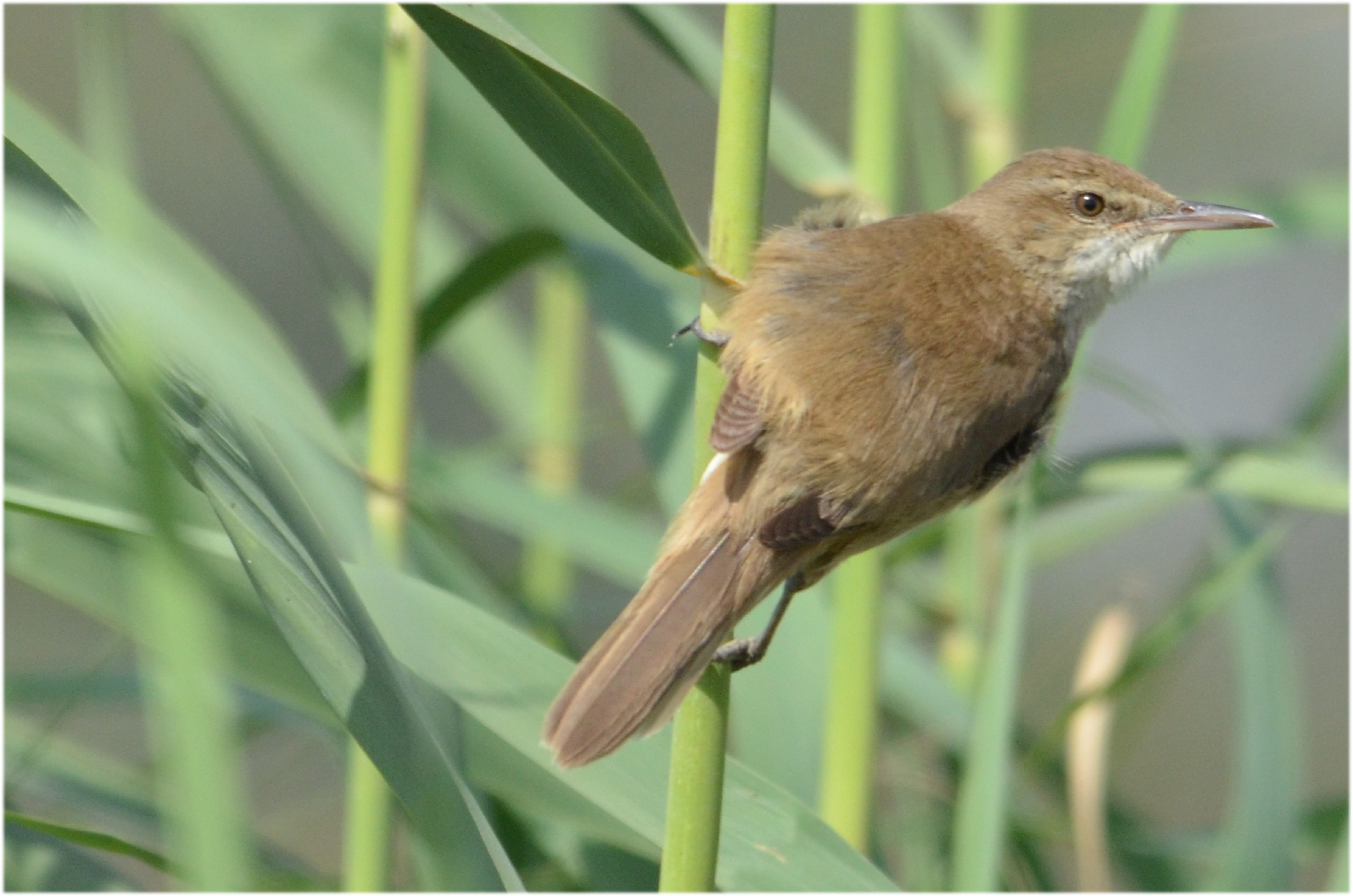 Clamorous Reed Warbler